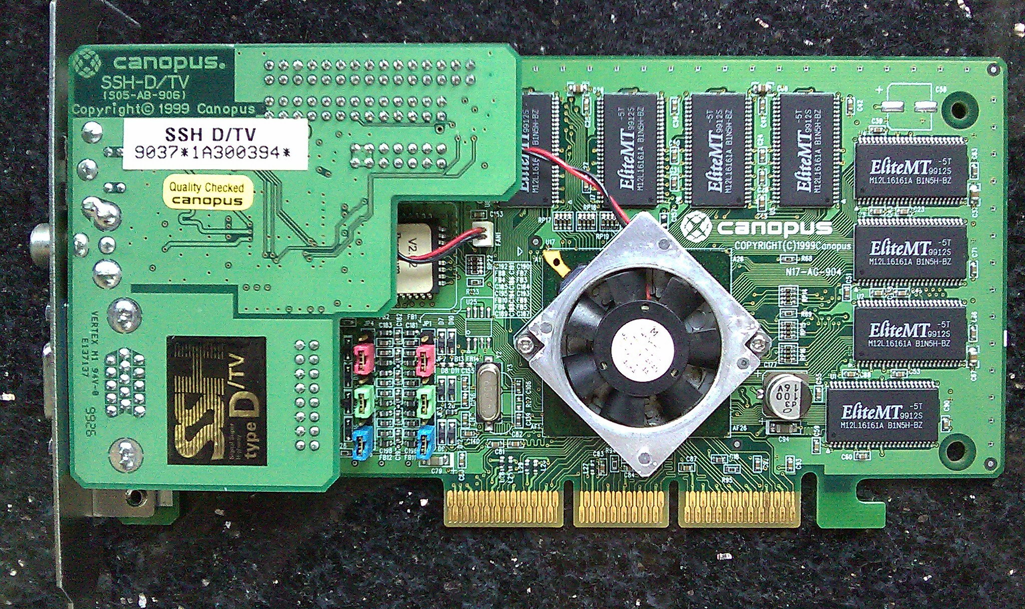 Canopus SPECTRA 8800 Graphic Card